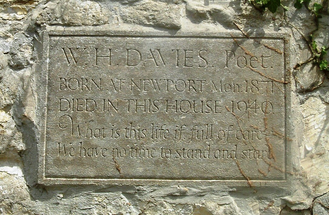 Plaque on "Glendower" at Watledge, Nailsworth, Gloucestershire, commemorating the last home of W. H. Davies